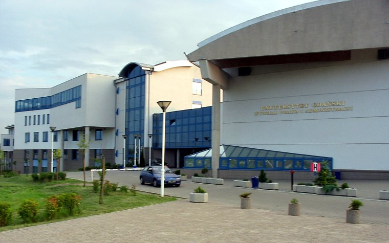 Gdańsk University - Faculty of Law and Administration (Poland)